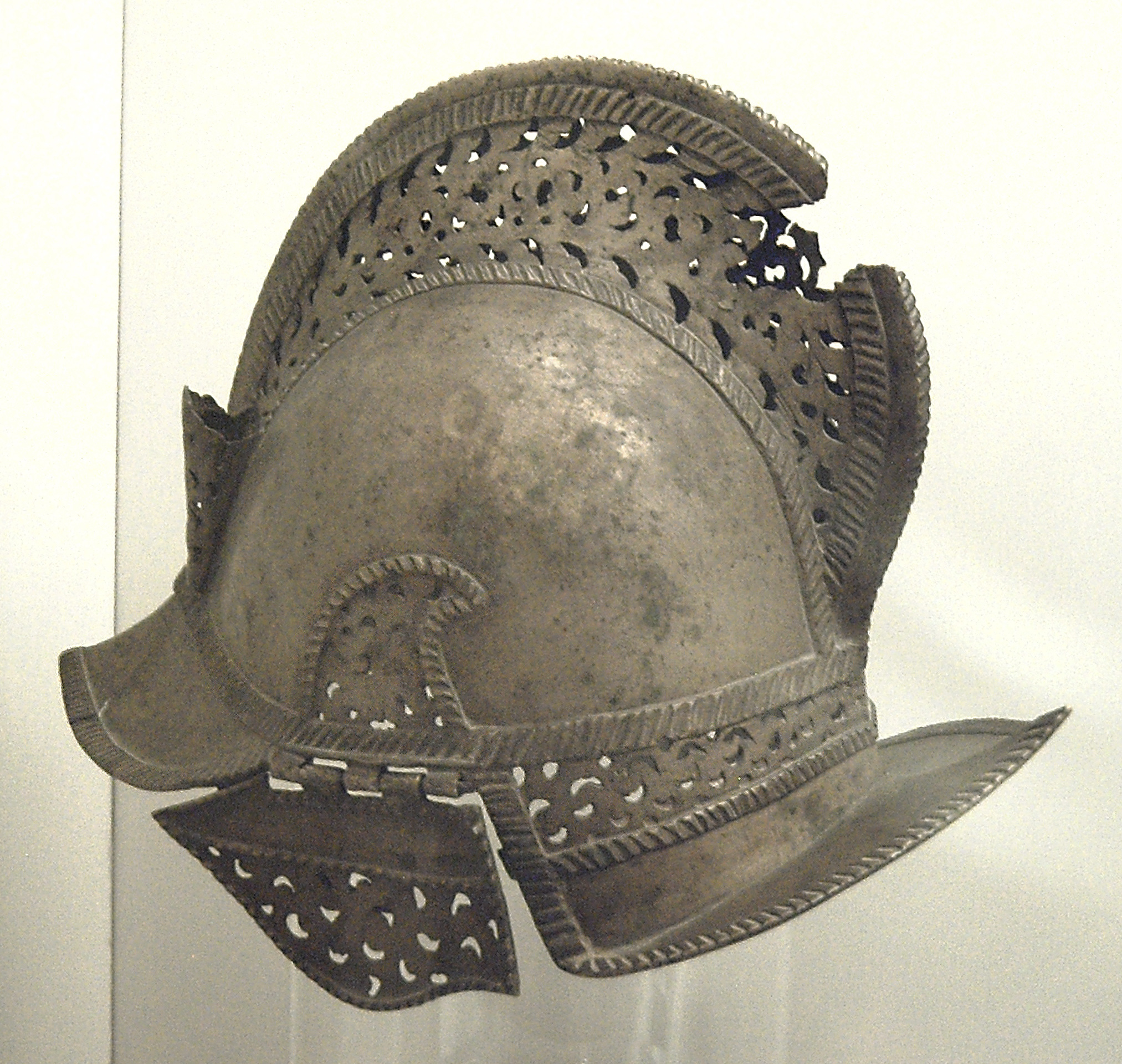 Philippine helmet, from the Moro's of Mindanao, showing European influence, possibly by the Spanish or Portuguese-style morion, with domed skull and pronounced comb and pierced scroll work, brass or bronze, 18th to 19th century.